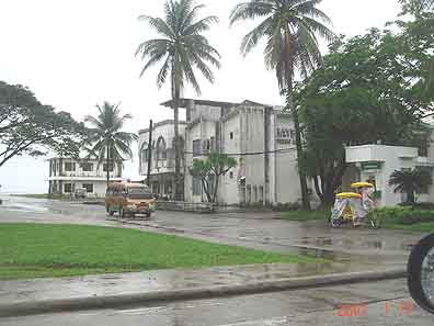 Baybay City Boulevard